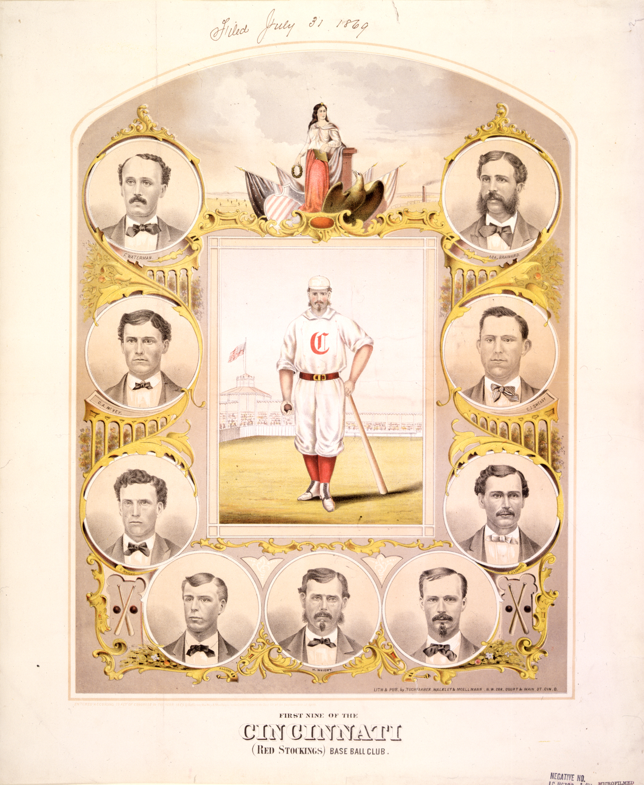 Color lithograph of the 1869 Cincinnati Red Stockings baseball team.